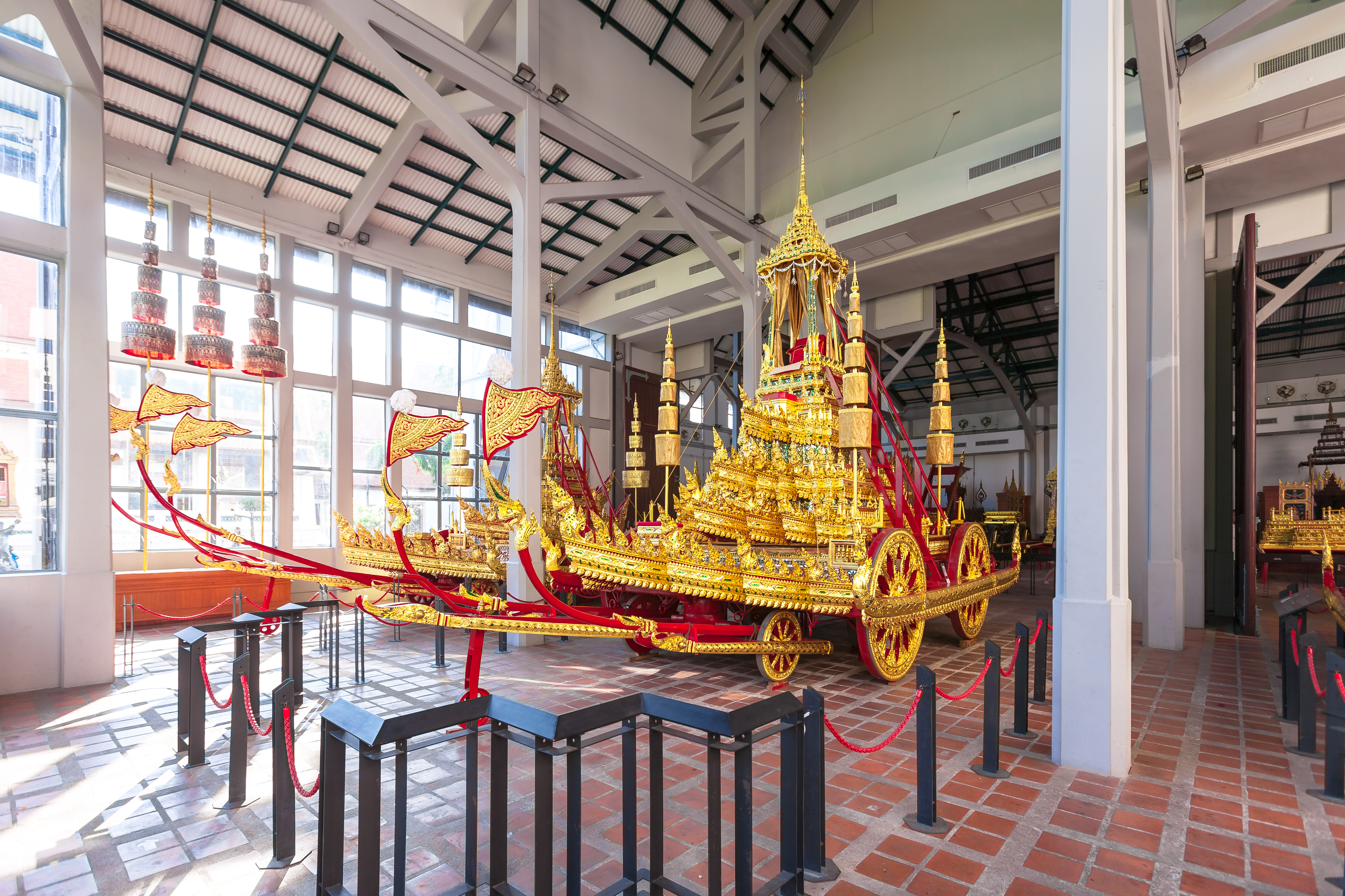 One of Minor chariots at Bangkok National Museum.